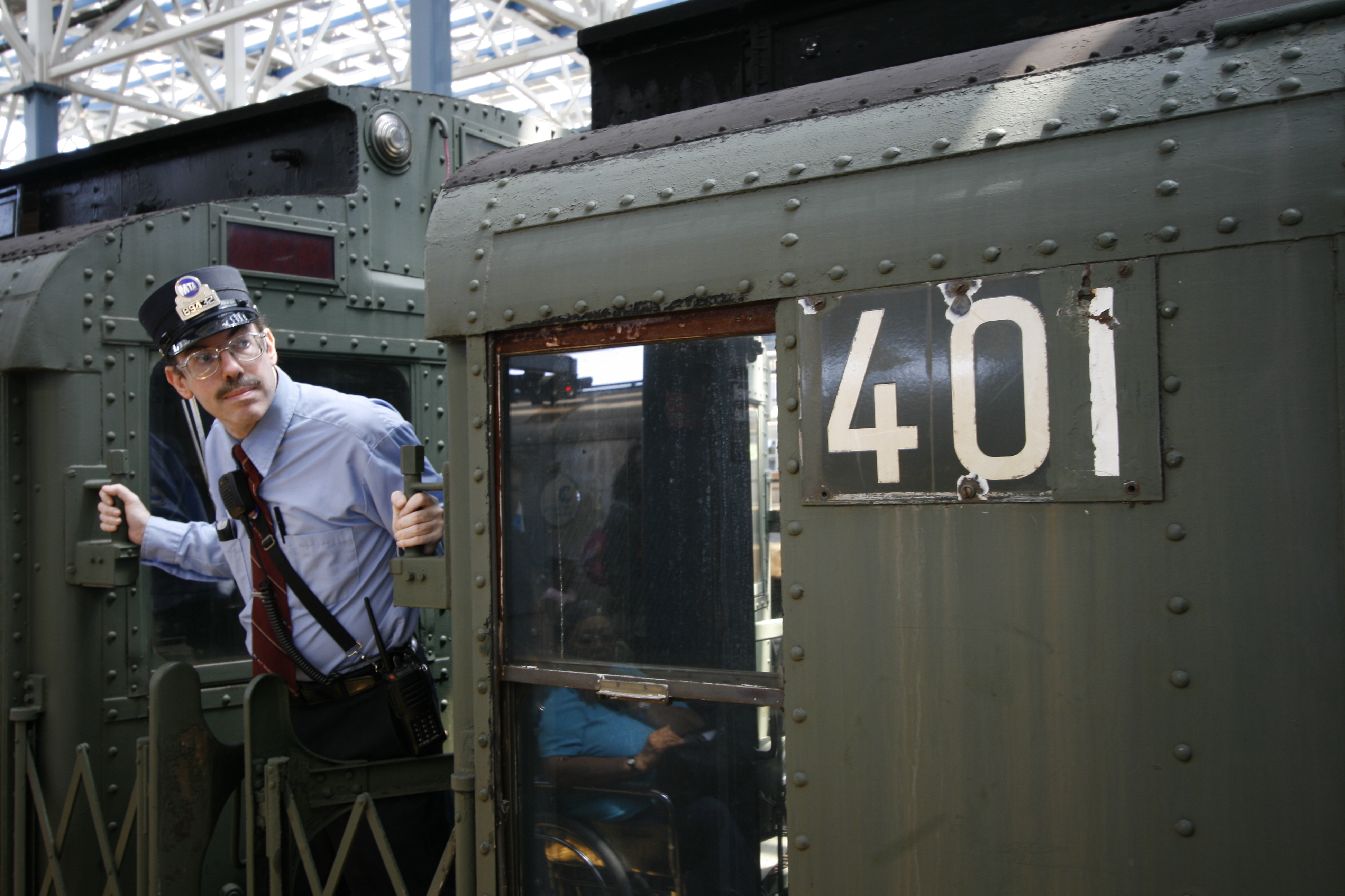 Conducting